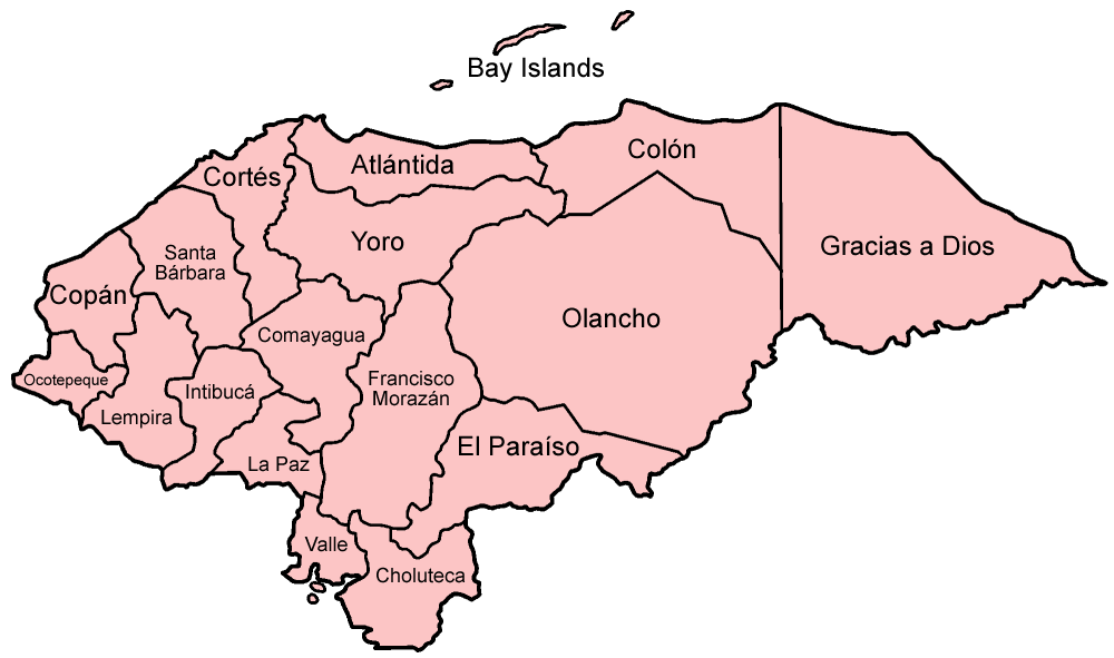 Map of the departments of Honduras in Spanish (local language). Made by User:Golbez.